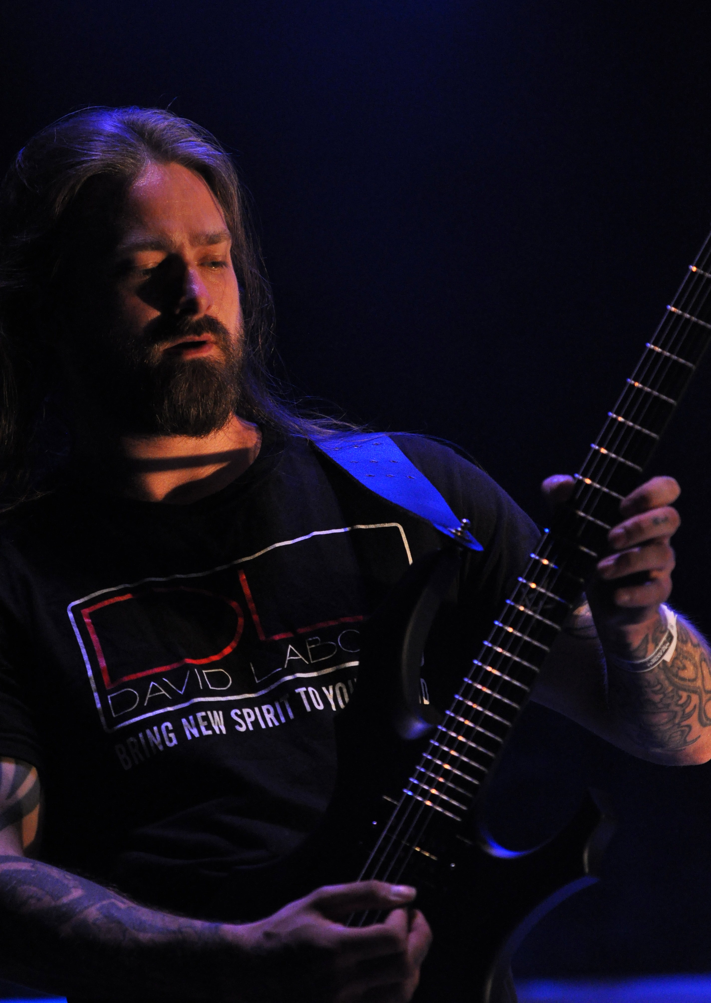 Hypocrisy at Party.San Metal Open Air 2013